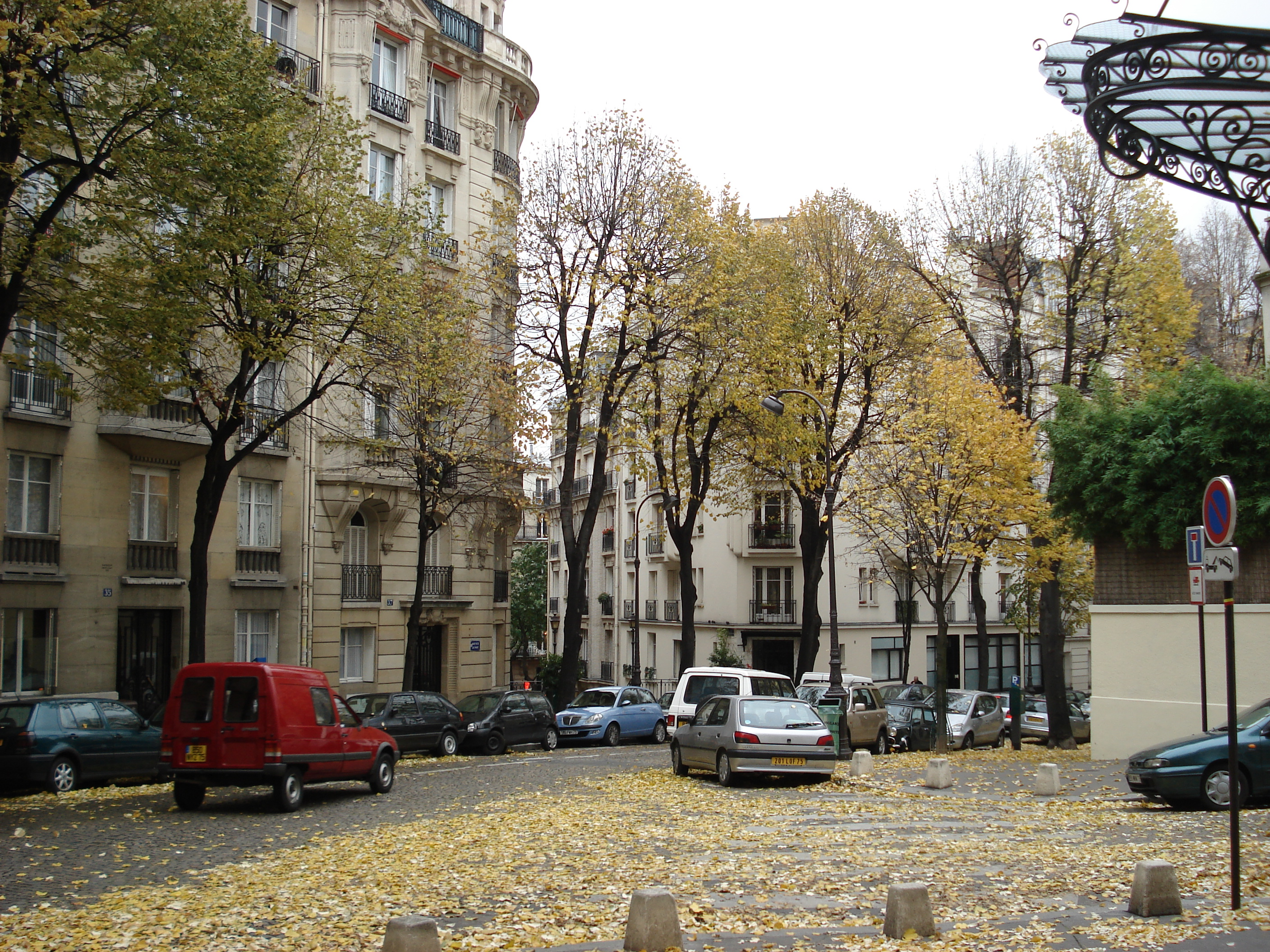 Street View of Paris; Avenue Junot no 35-37, XVIIIe arrondissement, Paris, France.